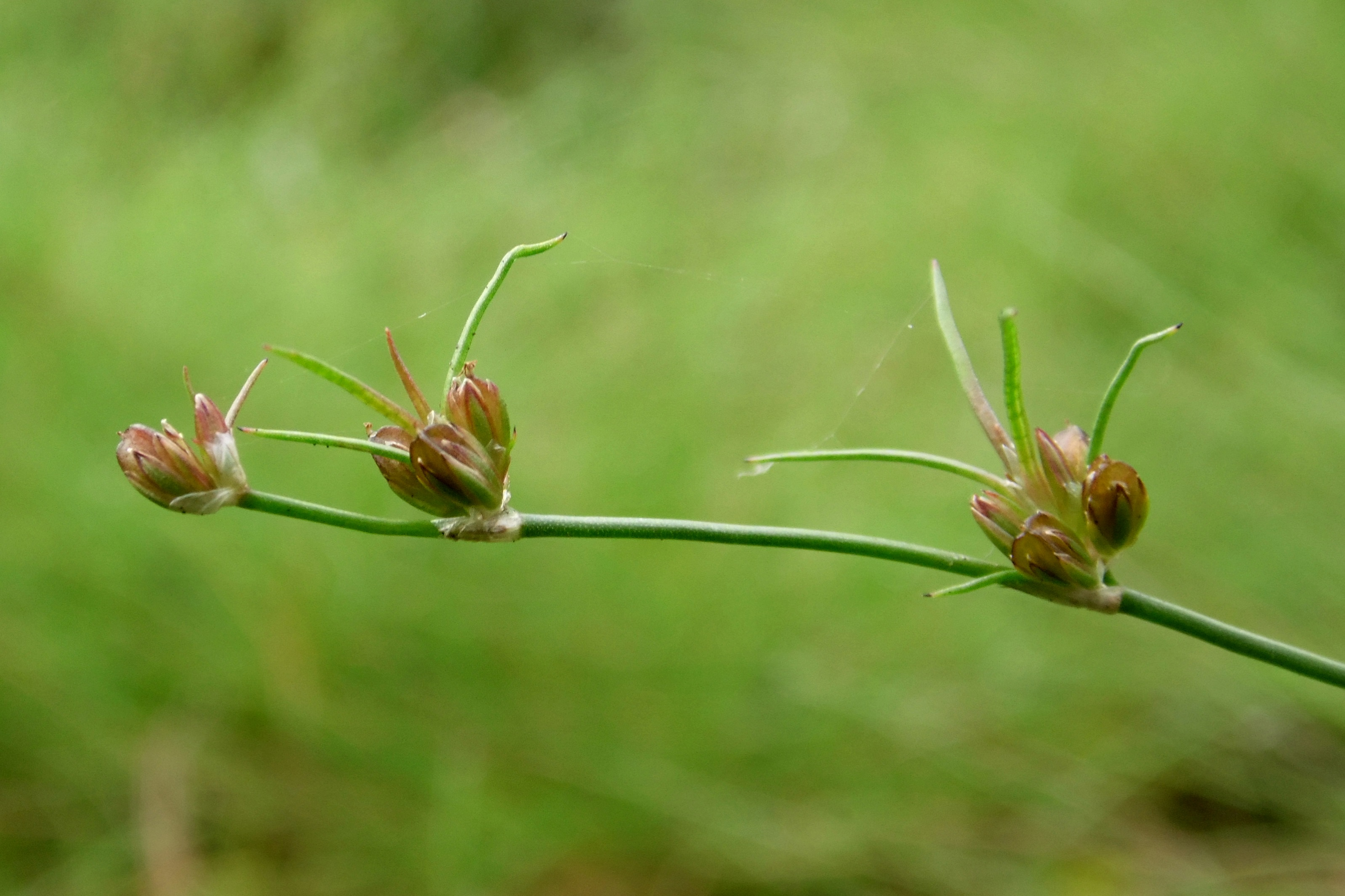 Juncus bulbosus